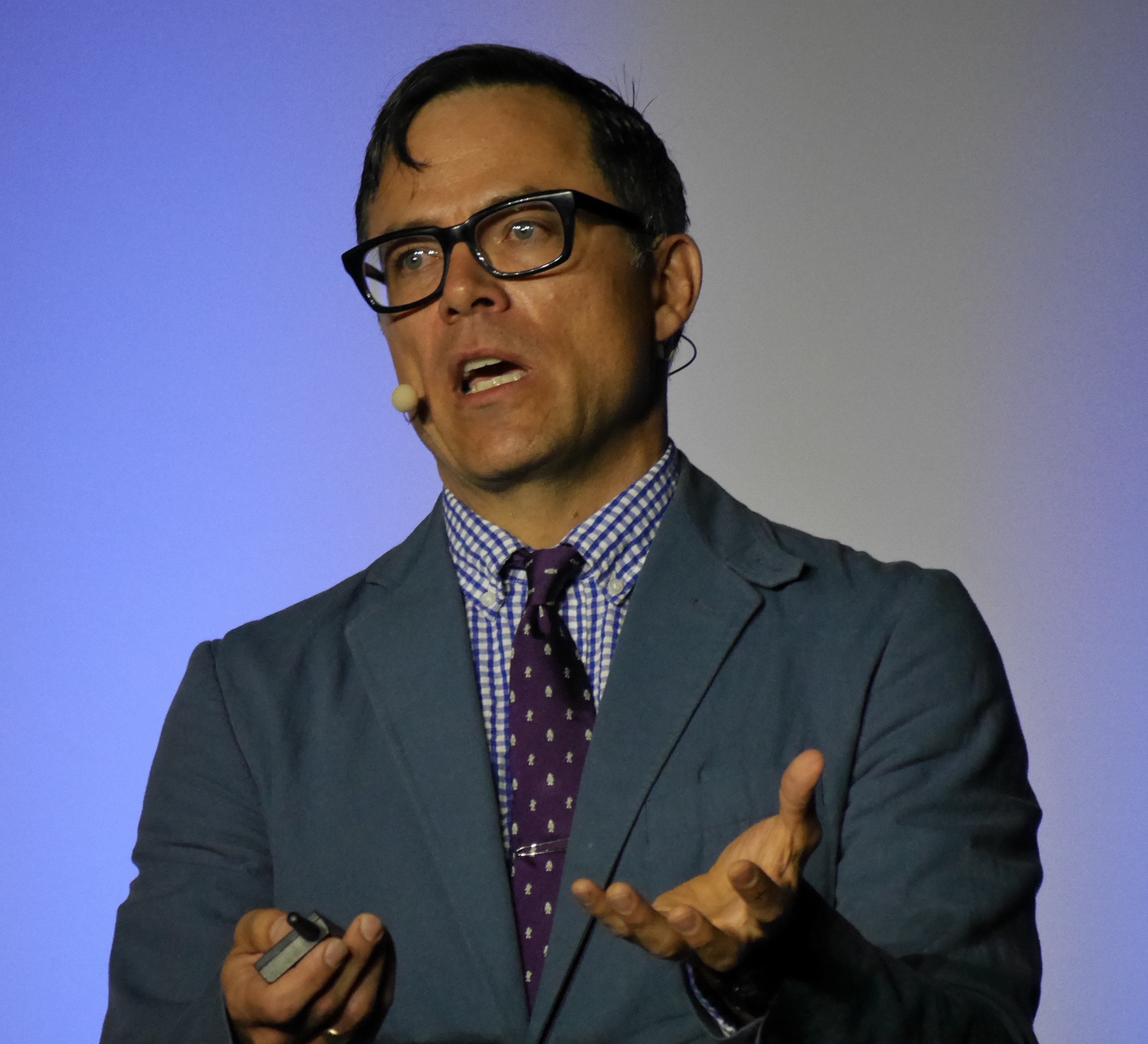 Timothy Caulfield- Is Gwyneth Paltrow Wrong?: When Celebrity Culture and Science Clash talk at TAM13 image2